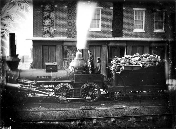 View of the steam locomotive Tioga leaving the Norris Brothers’ factory in Philadelphia. It was purchased by the Philadelphia & Columbia Railroad, which likely had this photo taken.